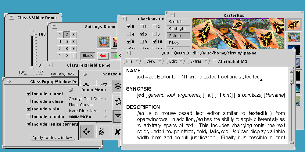 The NeWS Toolkit was an OPEN LOOK toolkit developed at Sun Microsystems, for the NeWS window system, that ran on the OpenWindows server. This is a screen dump of several typical TNT programs.